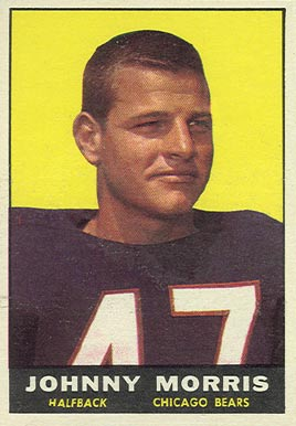 NFL player Johnny Morris depicted on a 1961 Topps football trading card